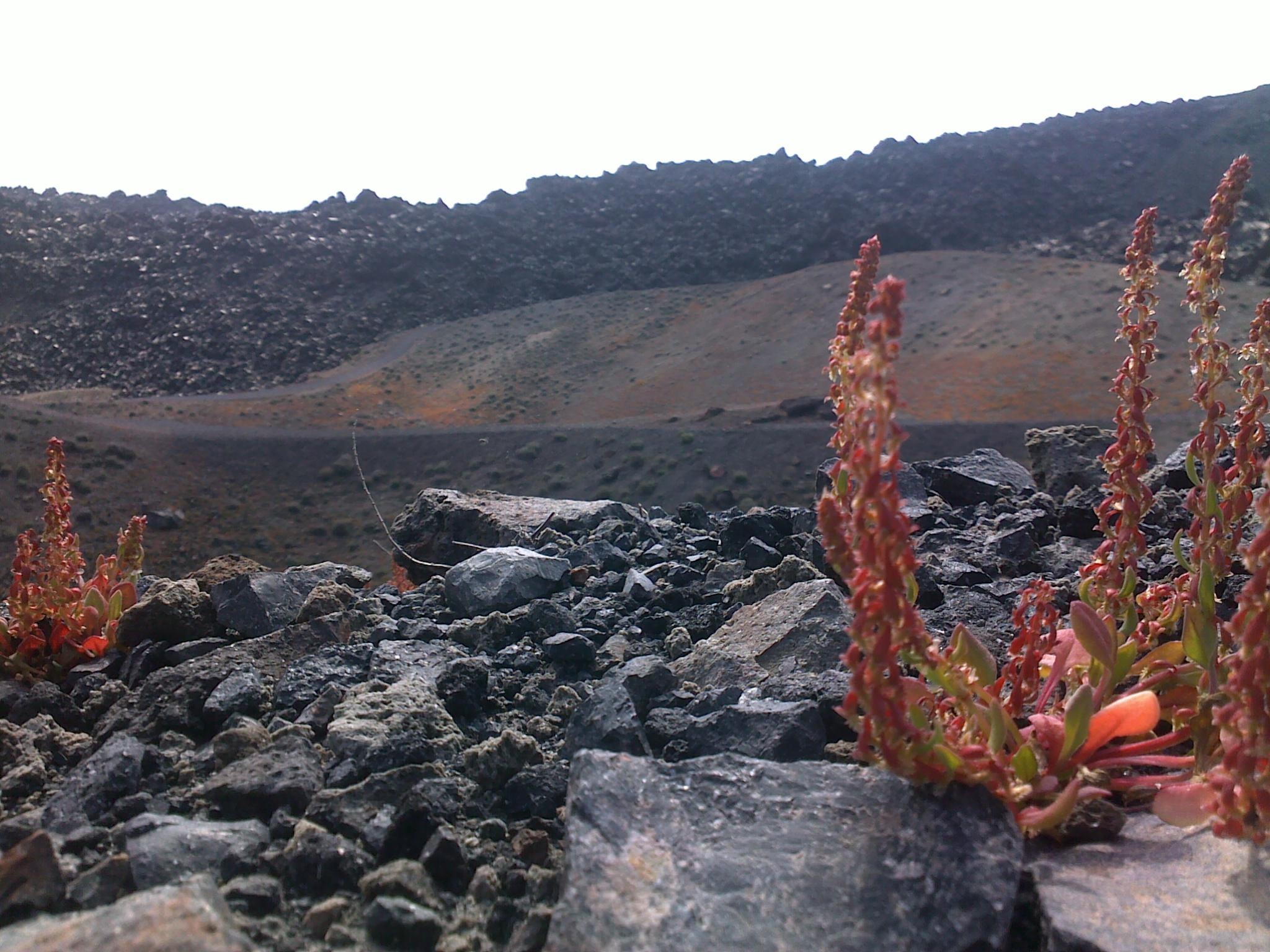 Santorini volcano